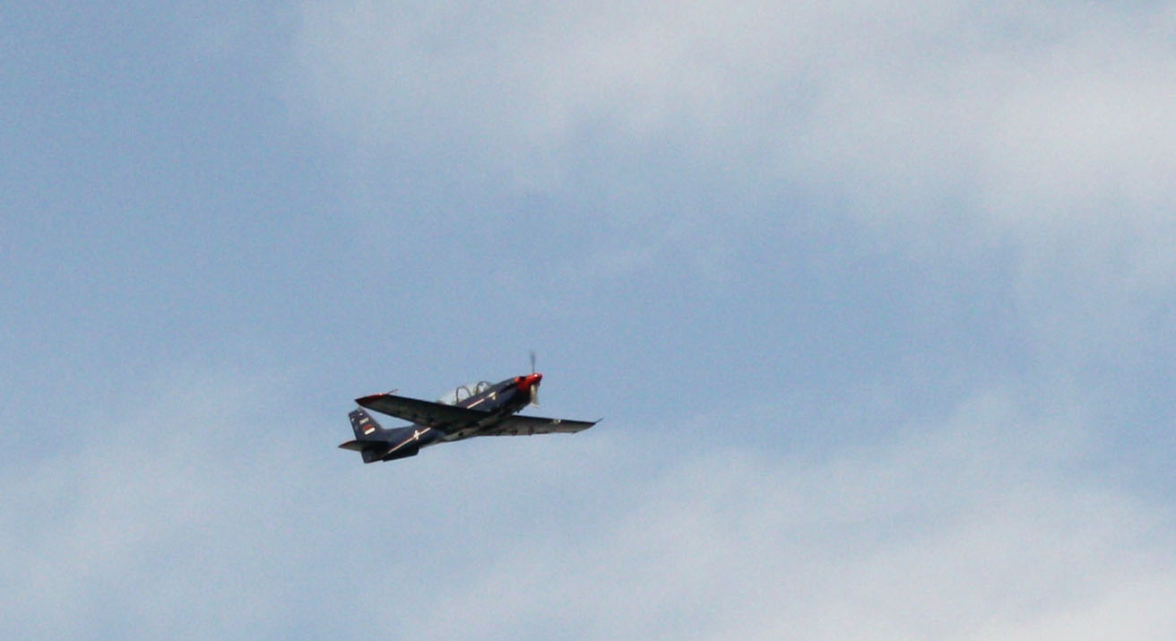 Utva Lasta 95 trainer aircraft of Serbian Air Force during the military exercise "Ušće 2011".